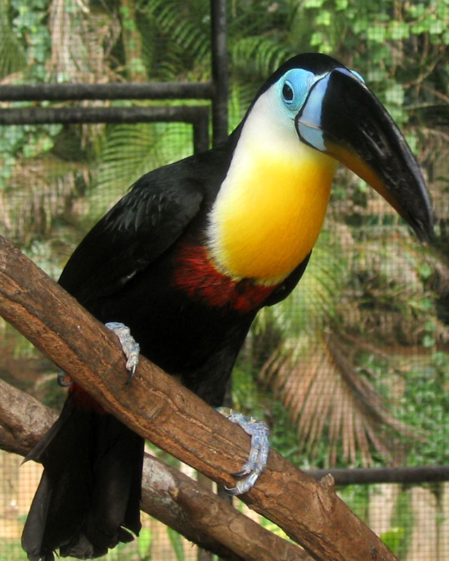 A Channel-billed Toucan (Ramphastos vitellinus). Photo taken in Trinidad and Tobago.